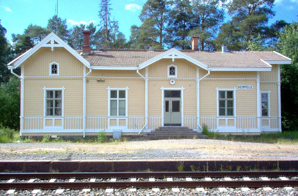 Kempele railway station in Kempele, Finland. Summer 2005. Completed in 1884. Architect: Knut Nylander. The expansion was completed in 1904, and it was designed by Bruno Granholm.